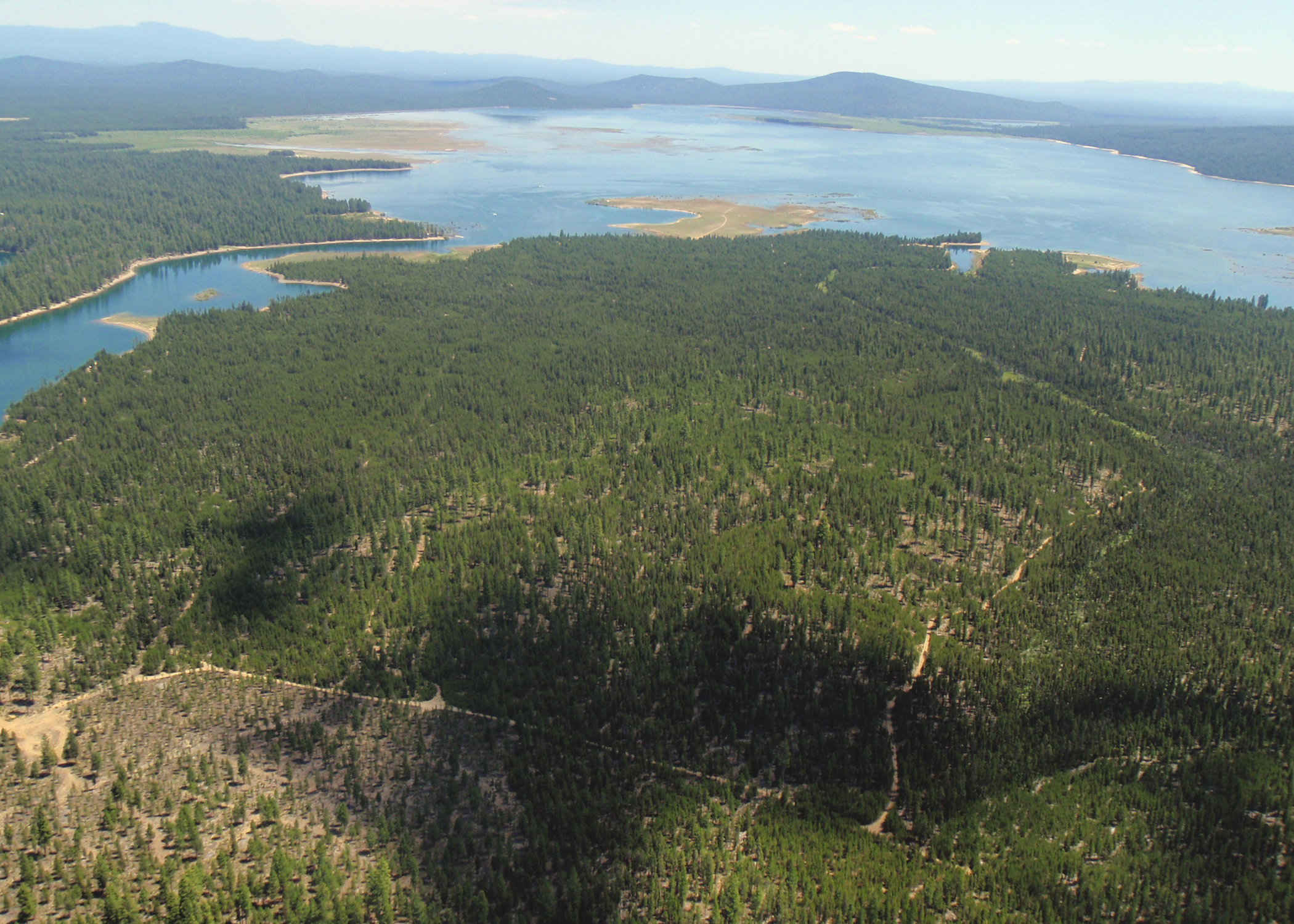 Photo by Rick Swart, ODFW Central Zone This is a 11,200-acre reservoir within the Deschutes National Forest approximately 40 miles southwest of Bend. This is one of Oregon's largest and most productive fisheries, offering self-sustaining populations of kokanee, brown trout, and rainbow trout. Both kokanee (up to 20 inches) and brown trout (up to 15 pounds) grow quite large here. This is primarily a boat fishery, although casting from shore is also popular. Depths range from 20 to 65 feet. Good boat ramps are available at Gull Point and North Wickiup campgrounds at the mouth of the Deschutes arm, at West South Twin Campground on the lower Deschutes Arm, Reservoir Campground on the southwest shore, and Wickiup Butte Campground on the southeast shore. Fish for rainbow trout, brown trout, kokanee, whitefish, and largemouth bass.